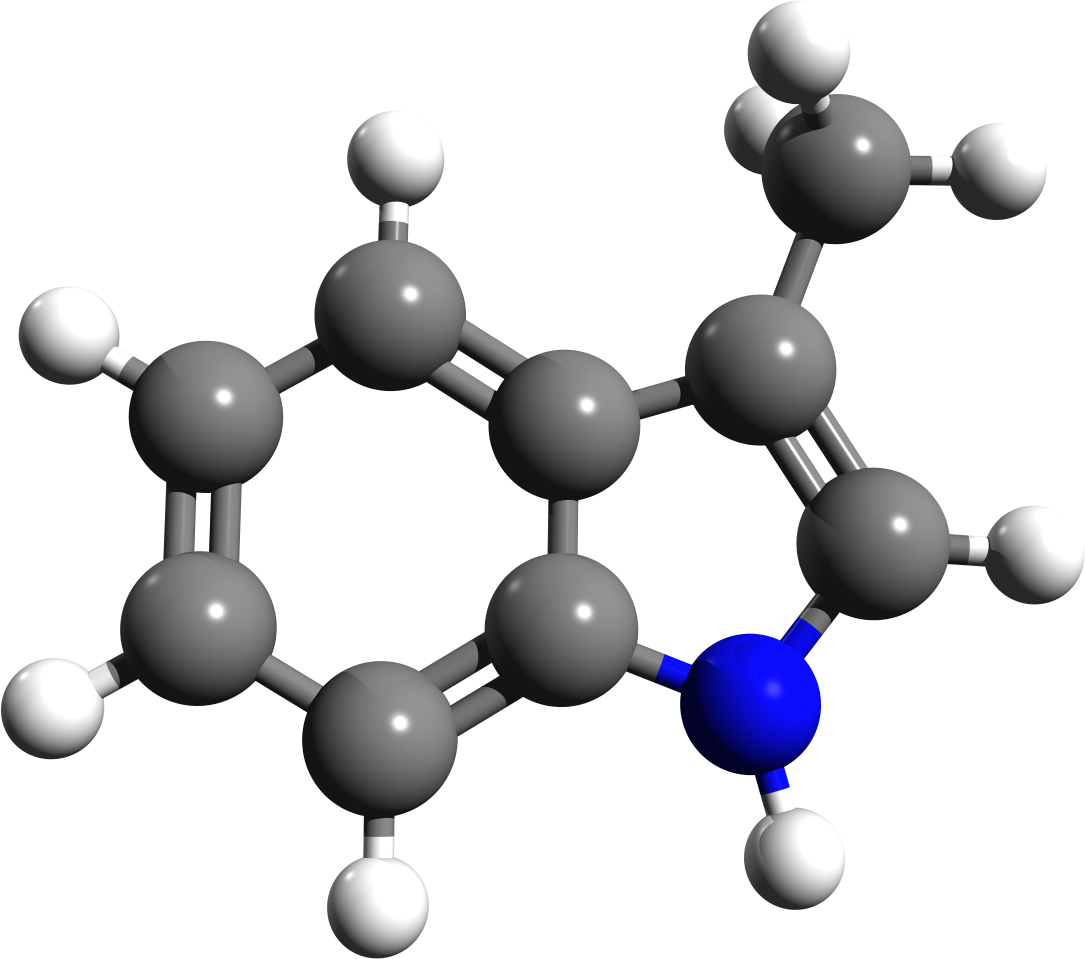 Skatole structure